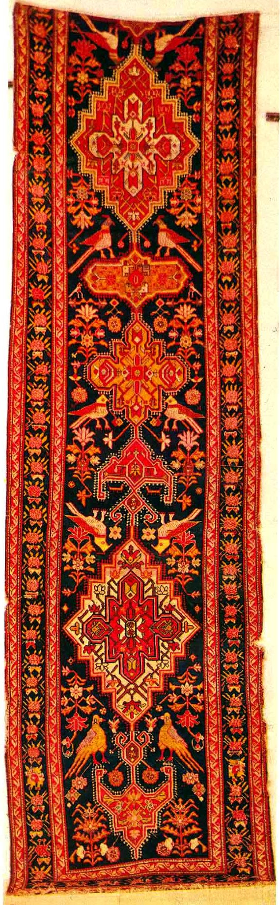 Lampa rug, Karabakh school, XVIII c.